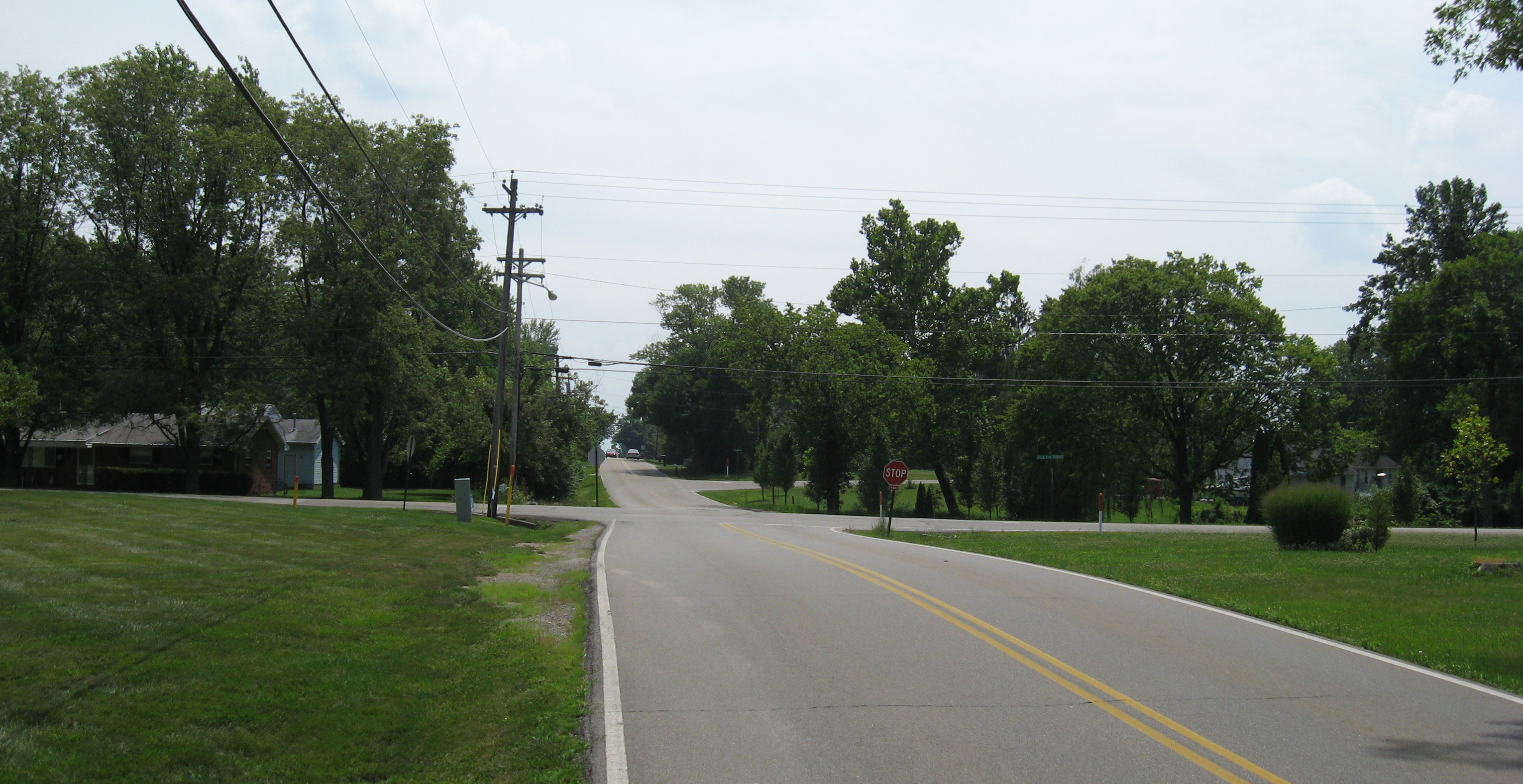 Near-five way intersection in Five Points, Ohio. The intersecting roads are Lytle Five Points Road, Red Lion Five Points Road, and Bunnell Hill Road. (Five Points, Ohio, USA)